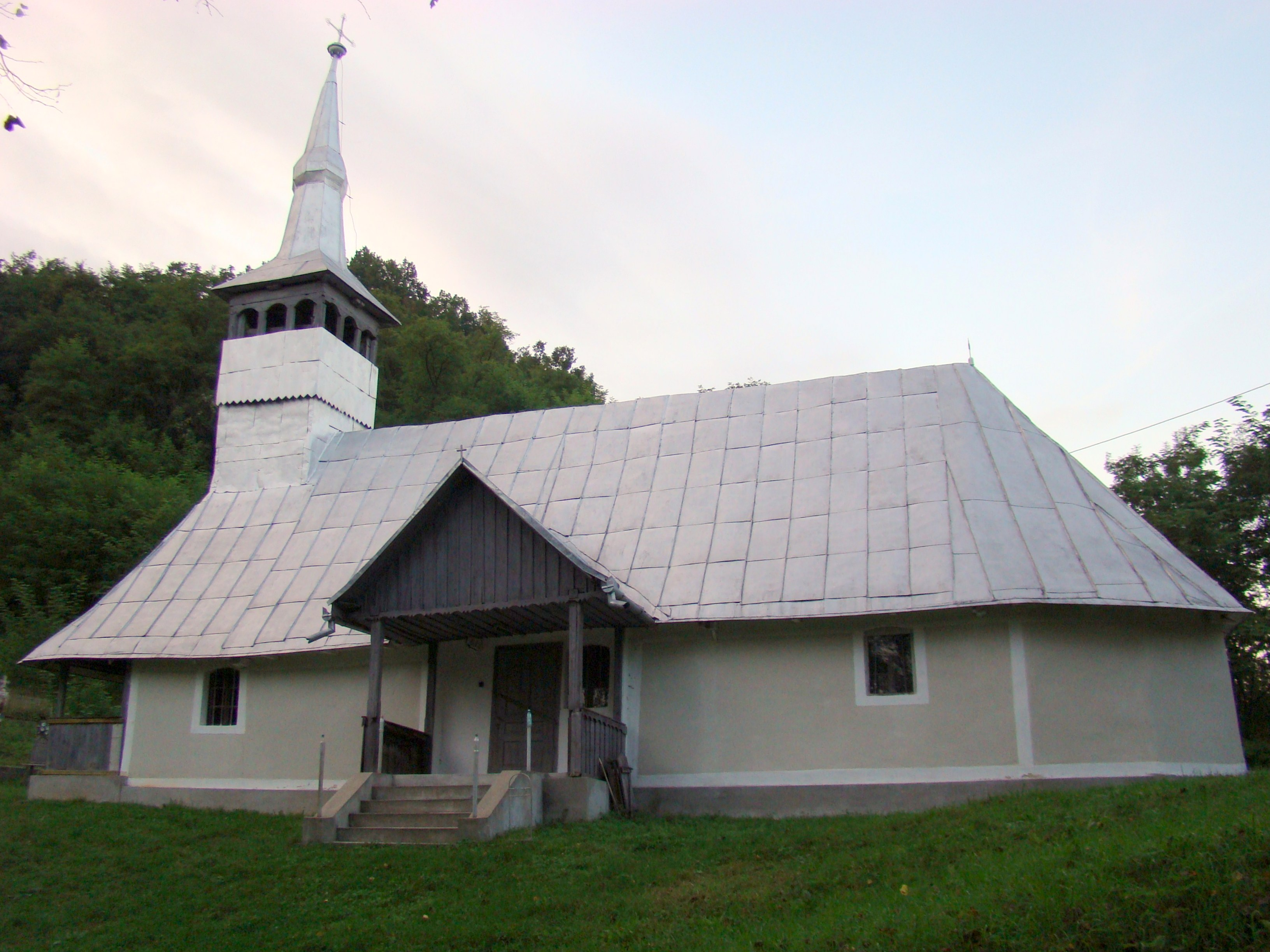 Wooden church in Peștera, Hunedoara county, Romania